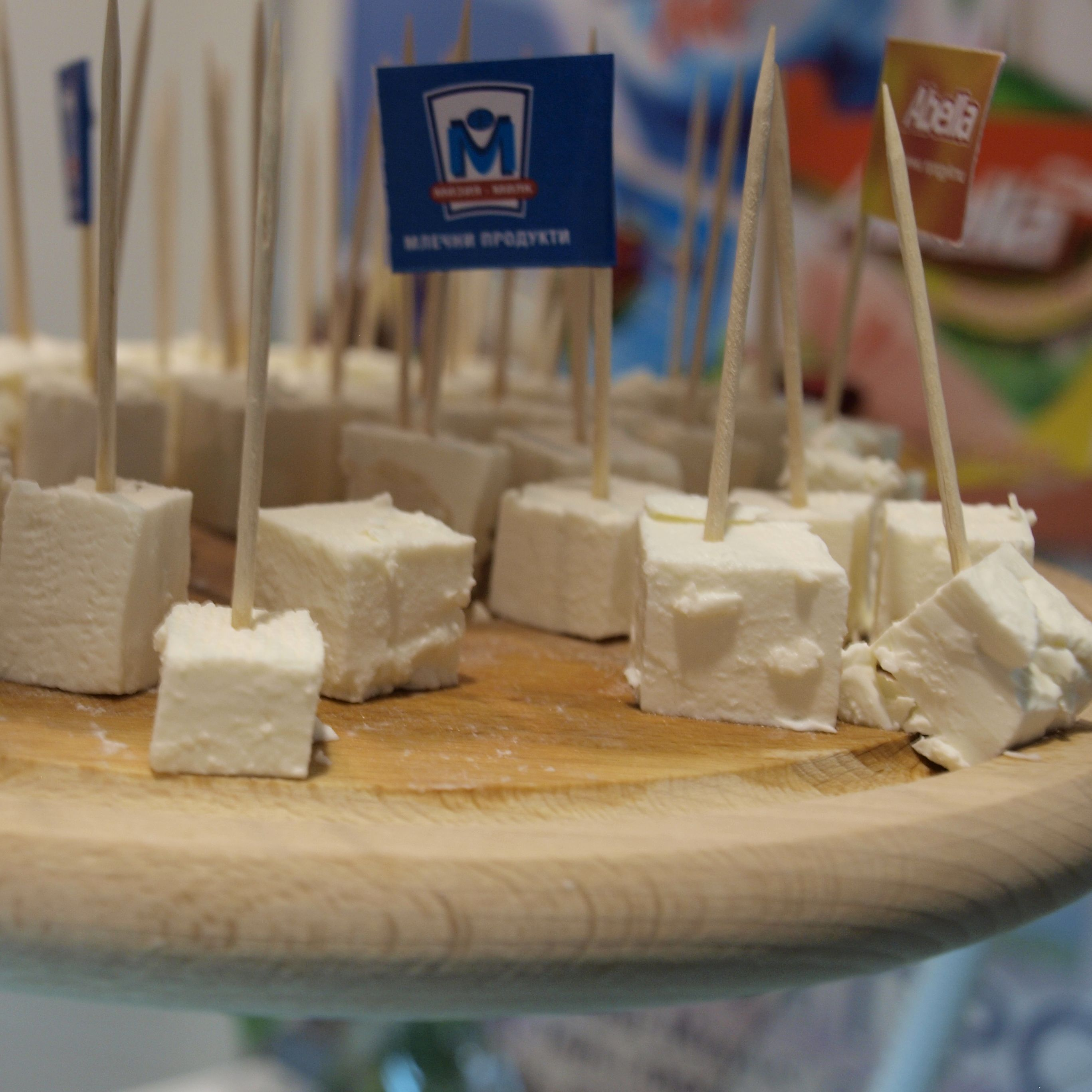 Bulgarian White brine cheese sliced in cubes for degustation.